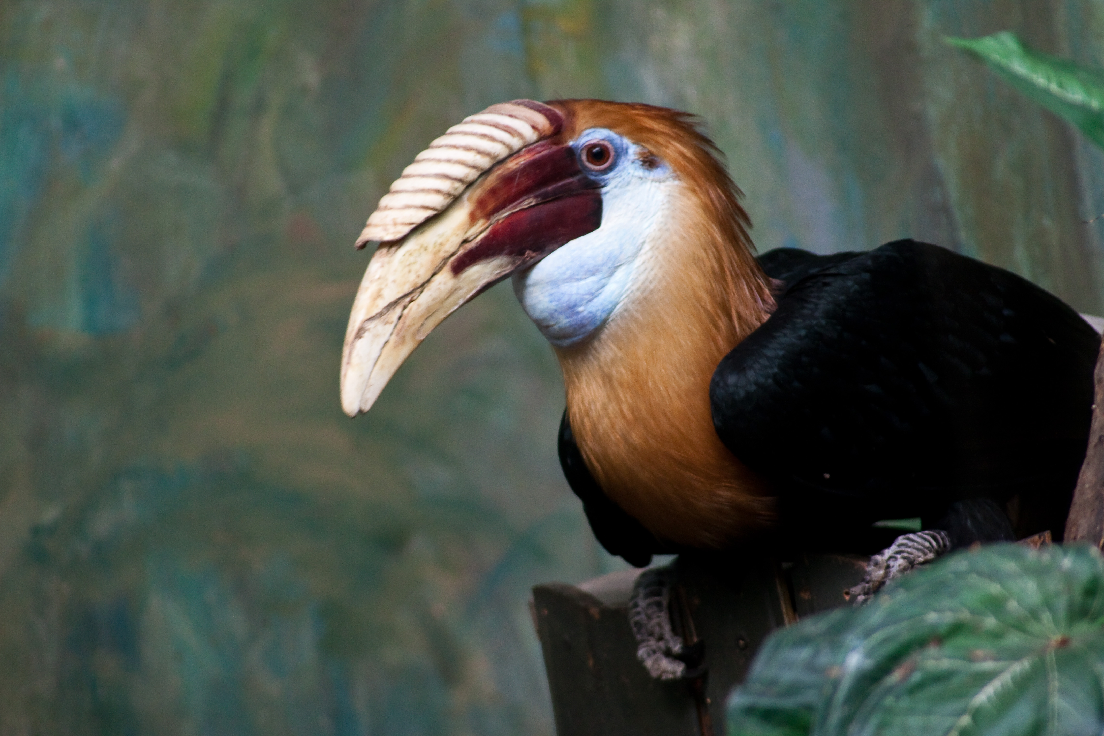 A male Papuan Hornbill (also known as Blyth's Hornbill) at Warsaw Zoo, Poland.